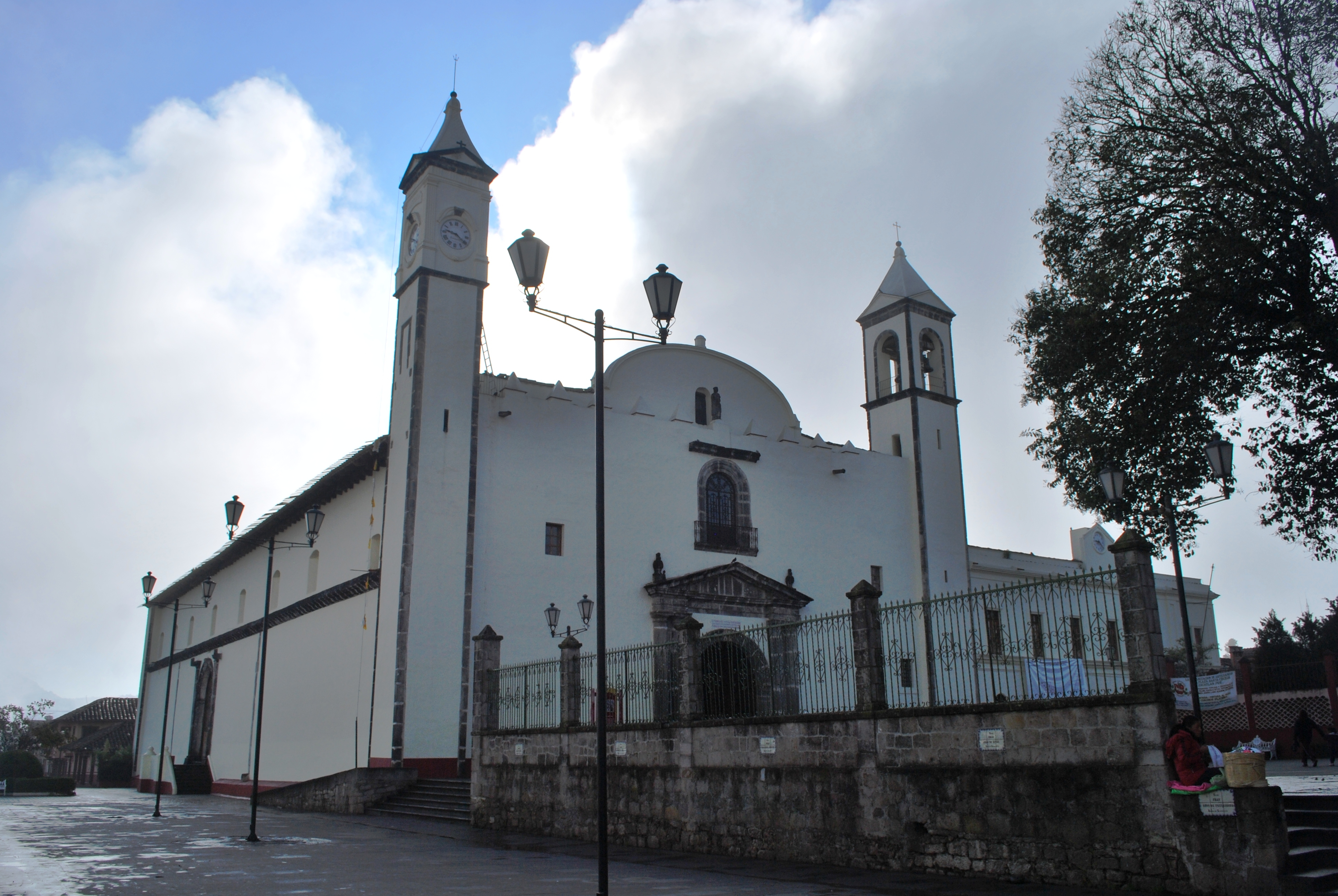 View of the Franciscan monastery in Zacatlán, Puebla, Mexico